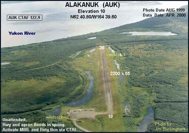 Annotated aerial photograph of Alakanuk Airport (FAA: AUK) in Alakanuk, Alaska, United States.